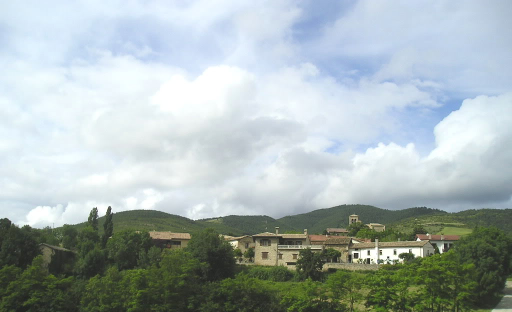 Eguesibarko Ibiriku kontzejuaren ikuspegia.